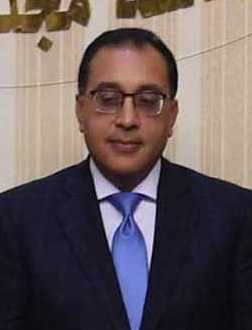 On 23. May framework agreement signed in Cairo for implementation of EuroAfrica Interconnector. The agreement was signed in the main hall of the Council of Ministers of Egypt by EuroAfrica Interconnector CEO Nasos Ktorides and Eng. Sabah Mohamed Mashal, Chairperson of the Egyptian Electricity Transmission Company. They signed in presence of Moustafa Madbouly, the Prime Minister of Egypt, Eng. Gaber Dessouki, Chairman of the Egyptian Electricity Holding Company, Dr. Mohamed Shaker El-Markabi, Minister of Electricity, Ioannis Kasoulides, former Cypriot foreign minister and Chairman of the Strategic Council of the EuroAfrica Interconnector and Charis Moritsis, Cyprus Ambassador to Cairo